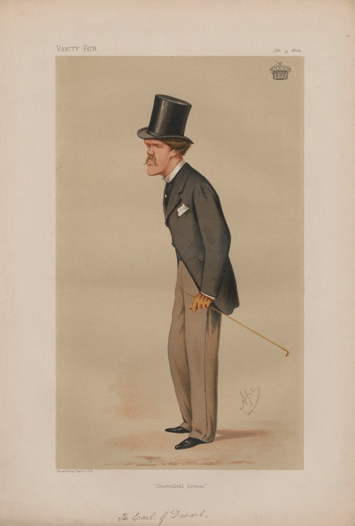 Caricature of William Cuffe, 4th Earl of Desart (1845-1898). Caption read "Chesterfield Letters".